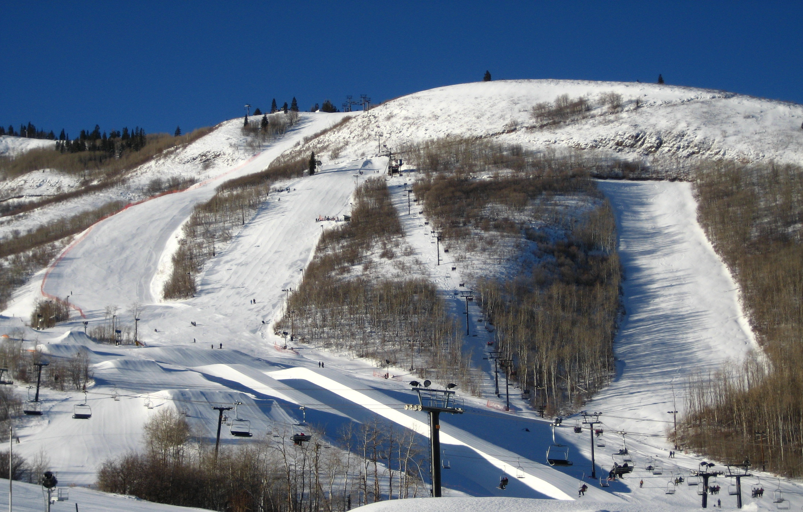 The Eagle Race Arena at Park City Mountain Resort, this area was the GS and snowboard halfpipe venue at the Salt Lake 2002 Olympics. CB's Run (left) is the GS hill.